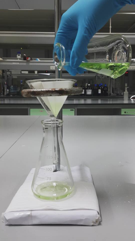 This image shows the process of Gravity Filtration performed for the separation of solid crystals from a solution.